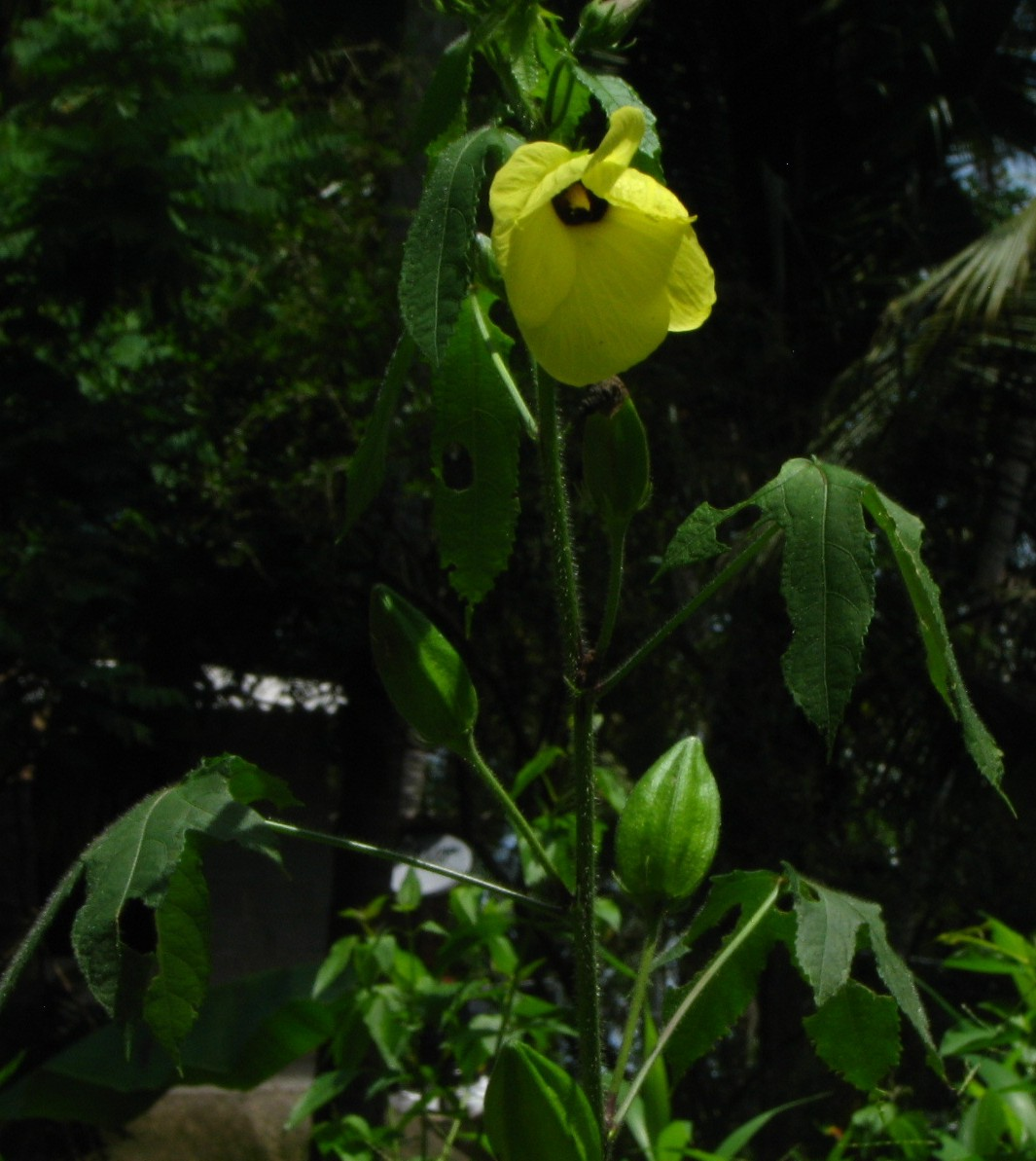 Abelmoschus moschatus whole plant.